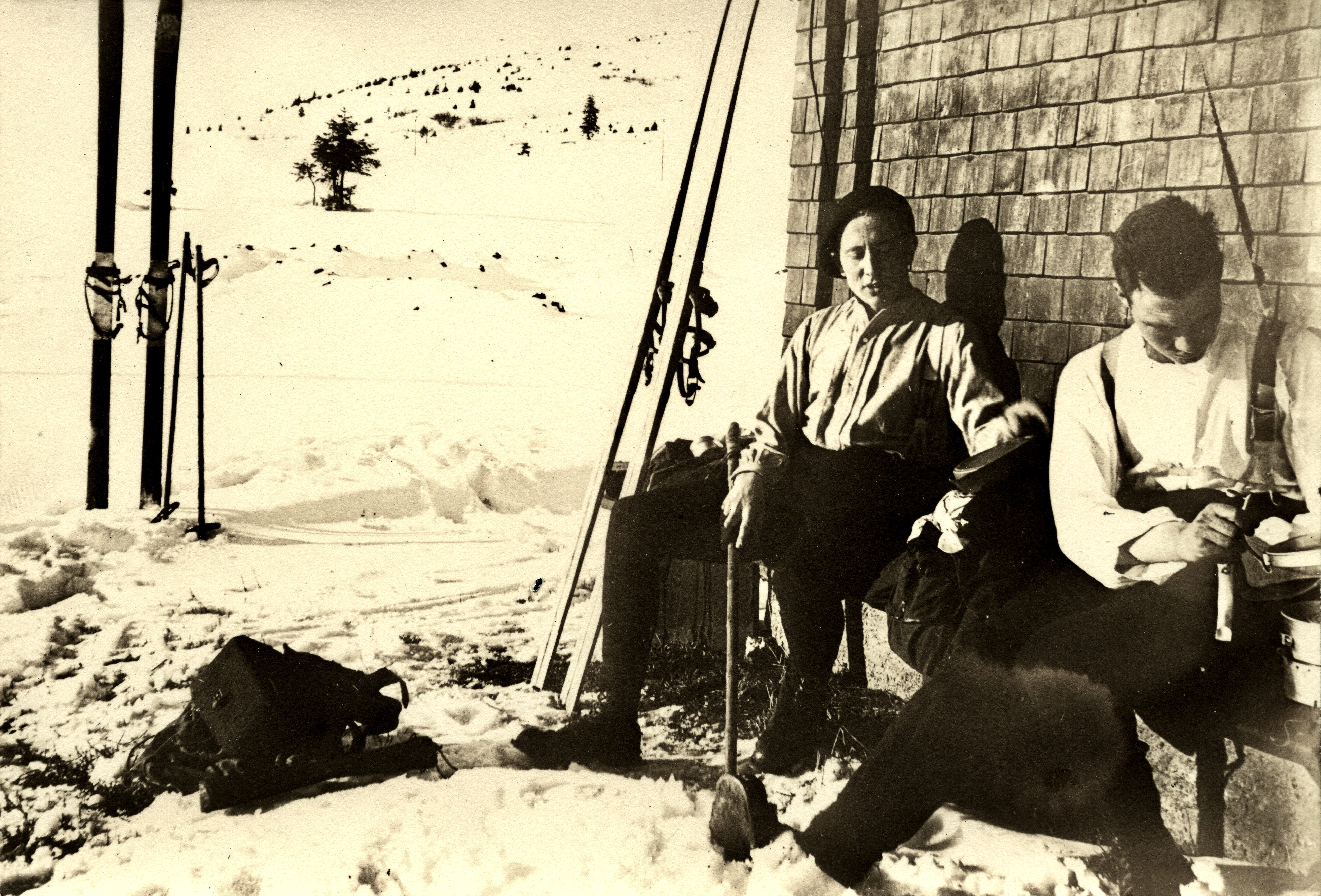 Arnold Fanck (1889–1974) with his university friend Hans Rohde on the occasion of a rest in front of a mountain hut. Rohde's father was the general and military attaché Hans Rohde (1888–1954). He conveyed Fanck, who was retired due to asthma, during the First World War to work for a photographic laboratory of German counter espionage, where he was able to develop his photographic knowledge and skills considerably.